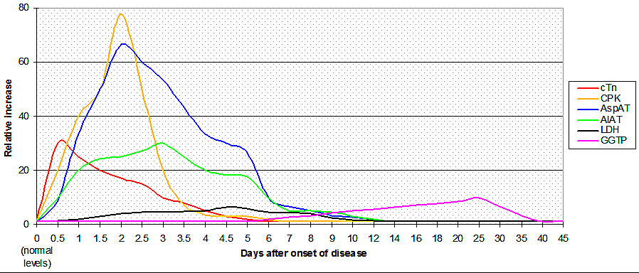 Relative levels of indicative enzymes in the serum of male patient with transmural myocardial infarct